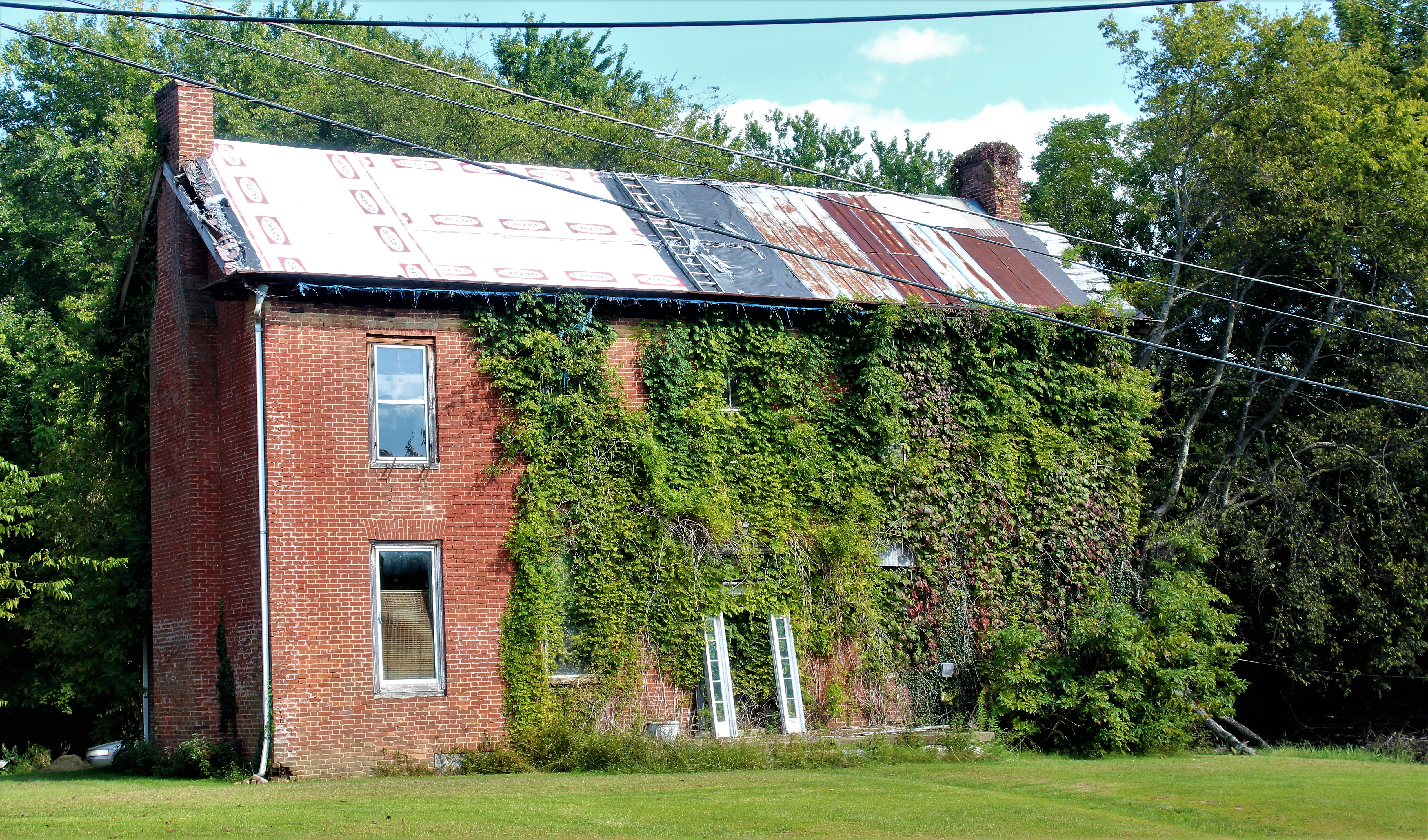 Sanford -Wilson House Clarksville, TN Photographer: Amanda A. Blount Twitter acct: Farmtospace